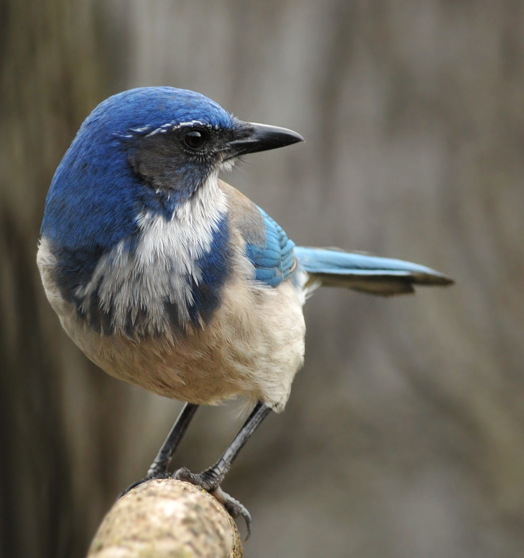 Western Scrub Jay aka California Scrub Jay, taken on February 28, 2010 in Mann, Seattle, WA, US. ID link